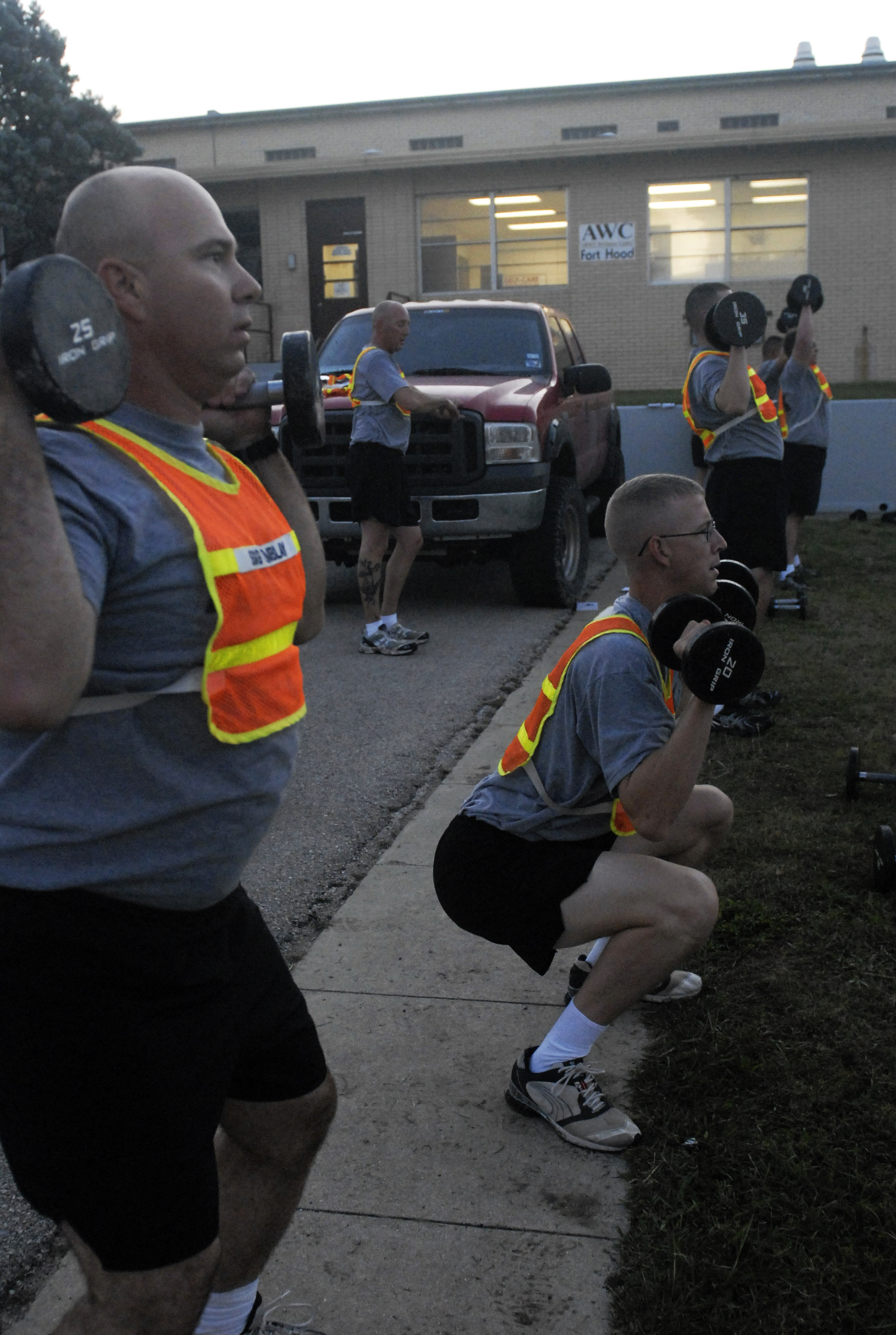 Soldiers, assigned to the 1st Battalion, 9th Cavalry Regiment, 4th Brigade Combat Team, 1st Cavalry Division, perform dumbbell thrusts during CrossFit physical training at Fort Hood's Wellness Center Sept. 16. CrossFit is an experimental physical fitness program the Soldiers are participating in for eight weeks.